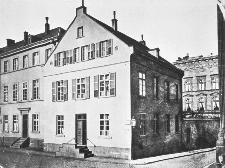 Auf der Litsch, Köln, (rba_mf065013)